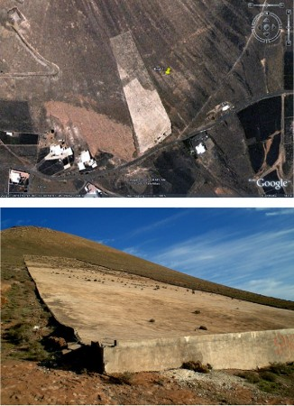 Rain collector at a mountain in Lanzarote, Canary Islands